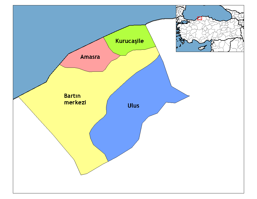 Map of the districts of Bartin province in Turkey. Created by Rarelibra 18:55, 1 December 2006 (UTC) for public domain use, using MapInfo Professional v8.5 and various mapping resources. Edited by One Homo Sapiens Corrected text where İ,Ş,ı,ğ,or ş occurs in name. Source: [statoids-com]. Increased font size and enhanced color differences among adjacent districts.